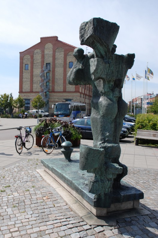 Shape in storm, (Gestalt i storm), sculpture by Swedish artist Bror Marklund in Trelleborg, bronze, 1964.